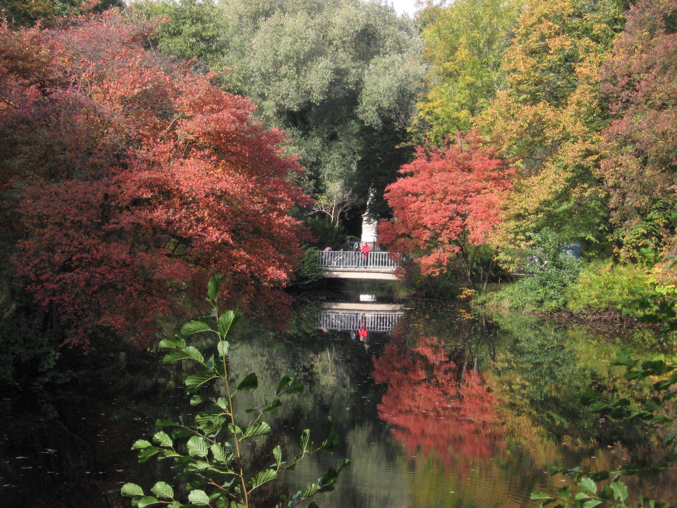 The Queen Louise Isle in Berlin-Tiergarten